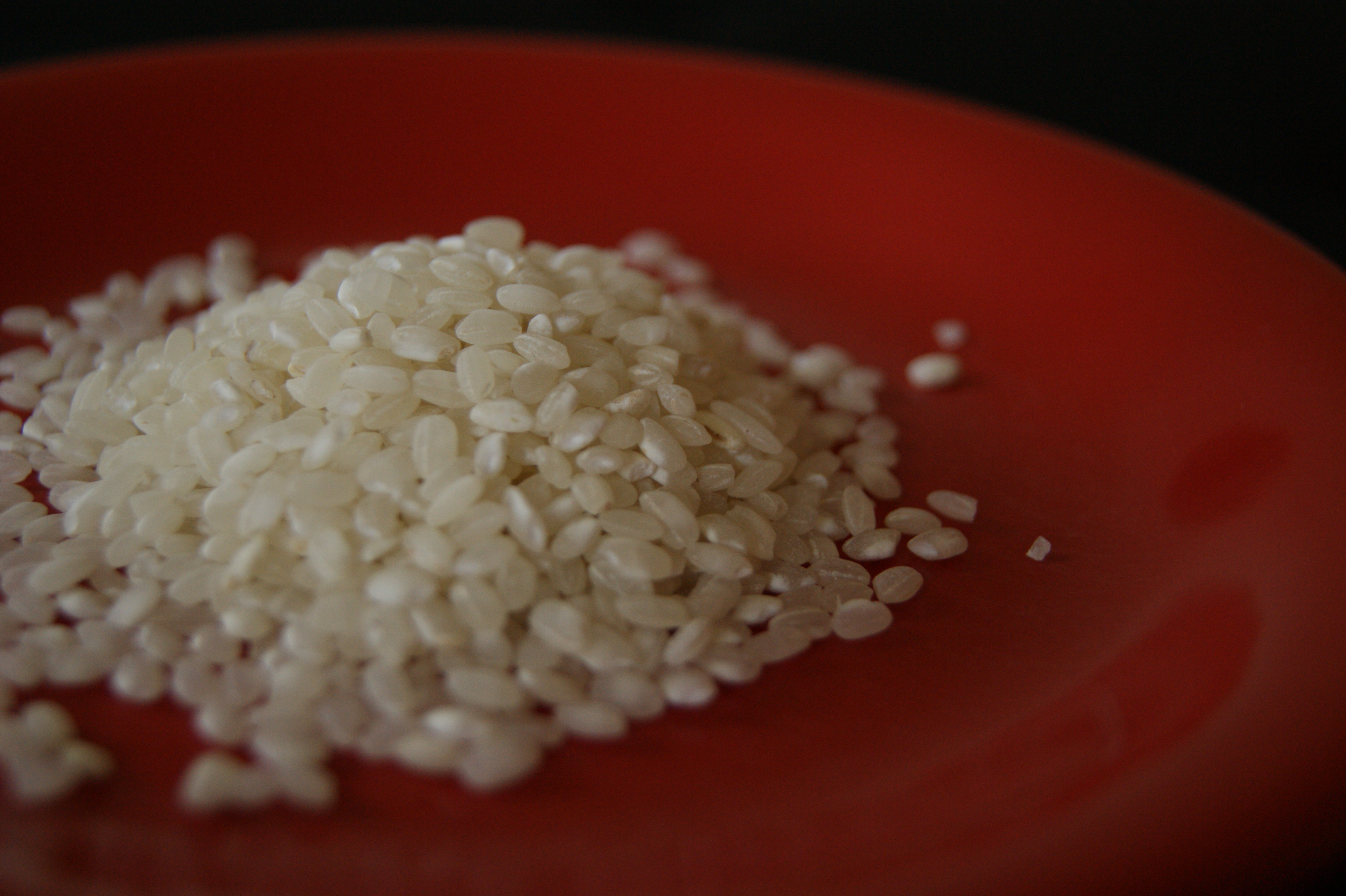 Rice pudding